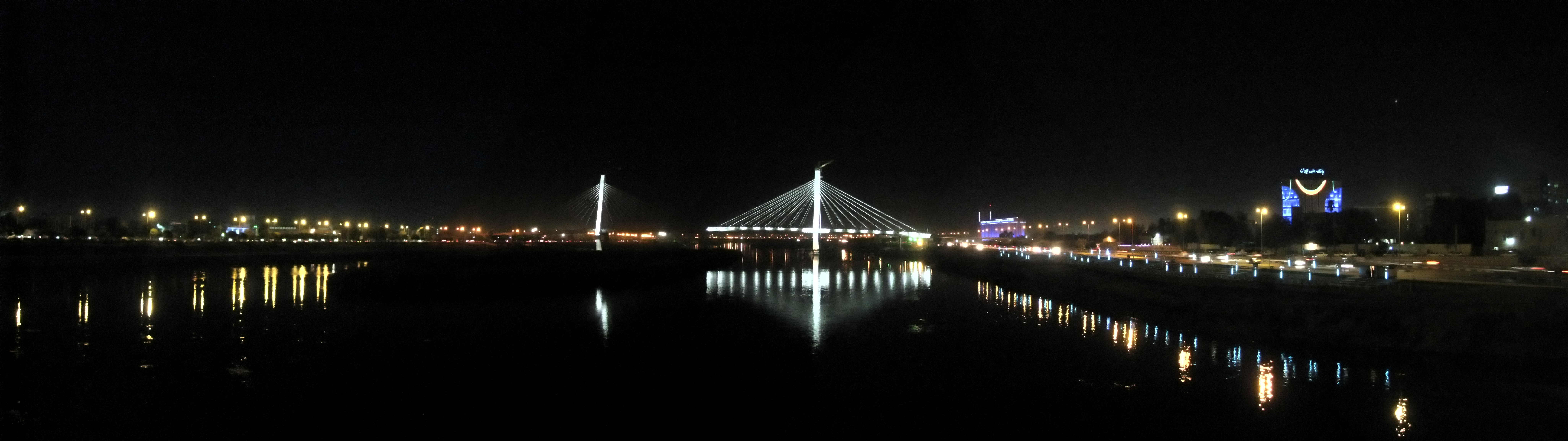 Panoramic view of the ahvaz